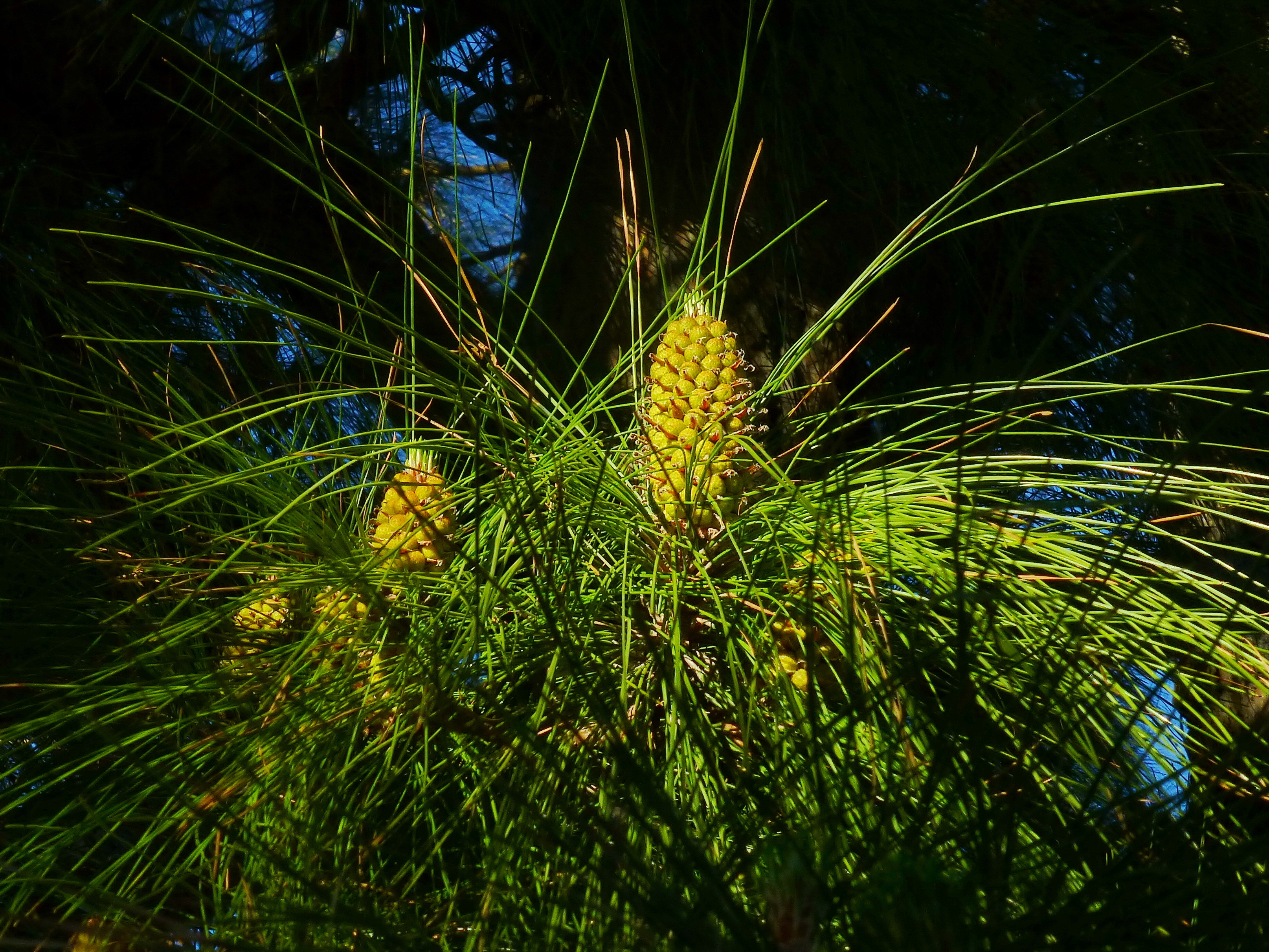 Male cones of Canary Island pine (Pinus canariensis), "Pino canario", on El Hierro